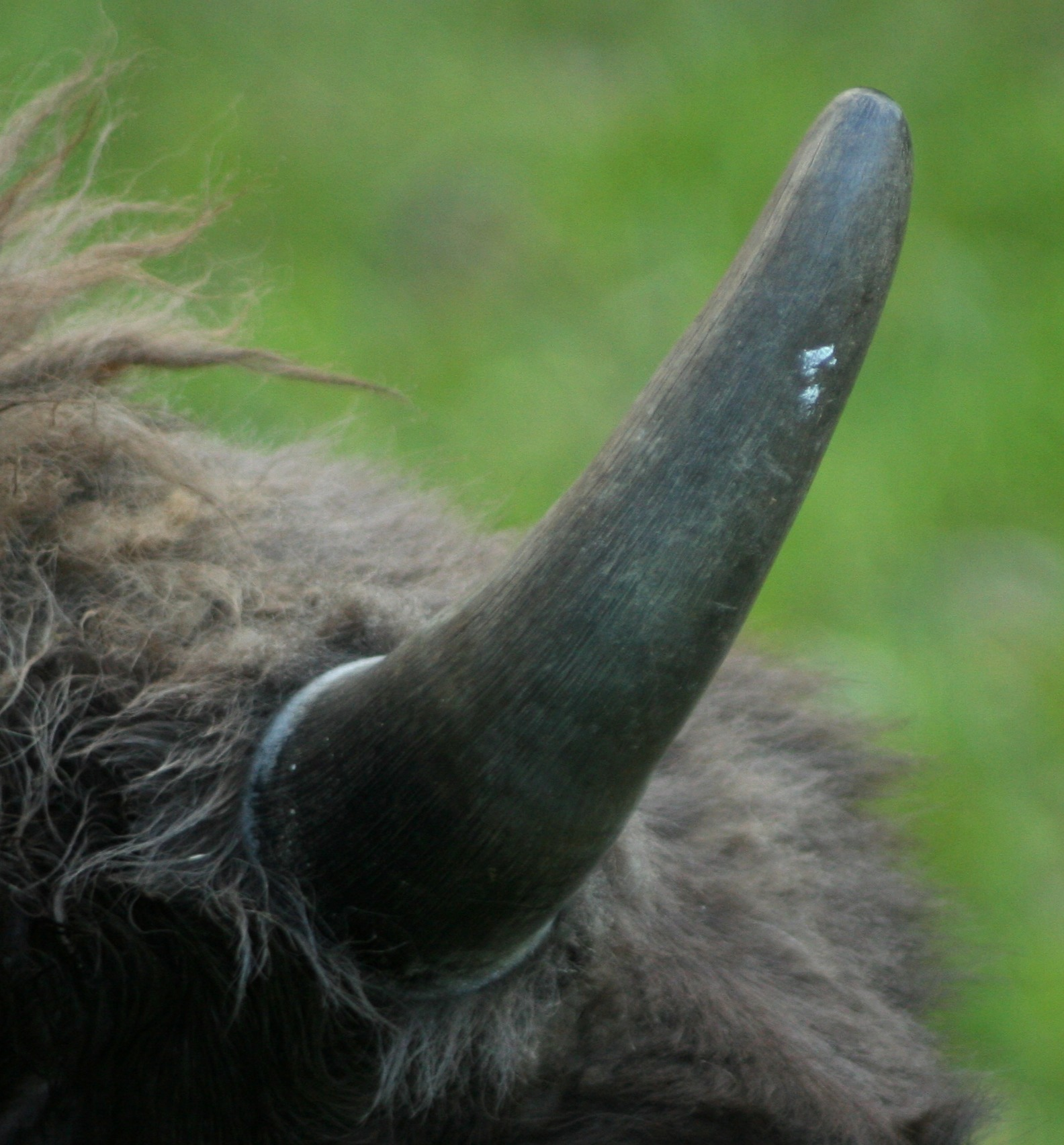 The Wisent or European Bison (Bison bonasus) - horn